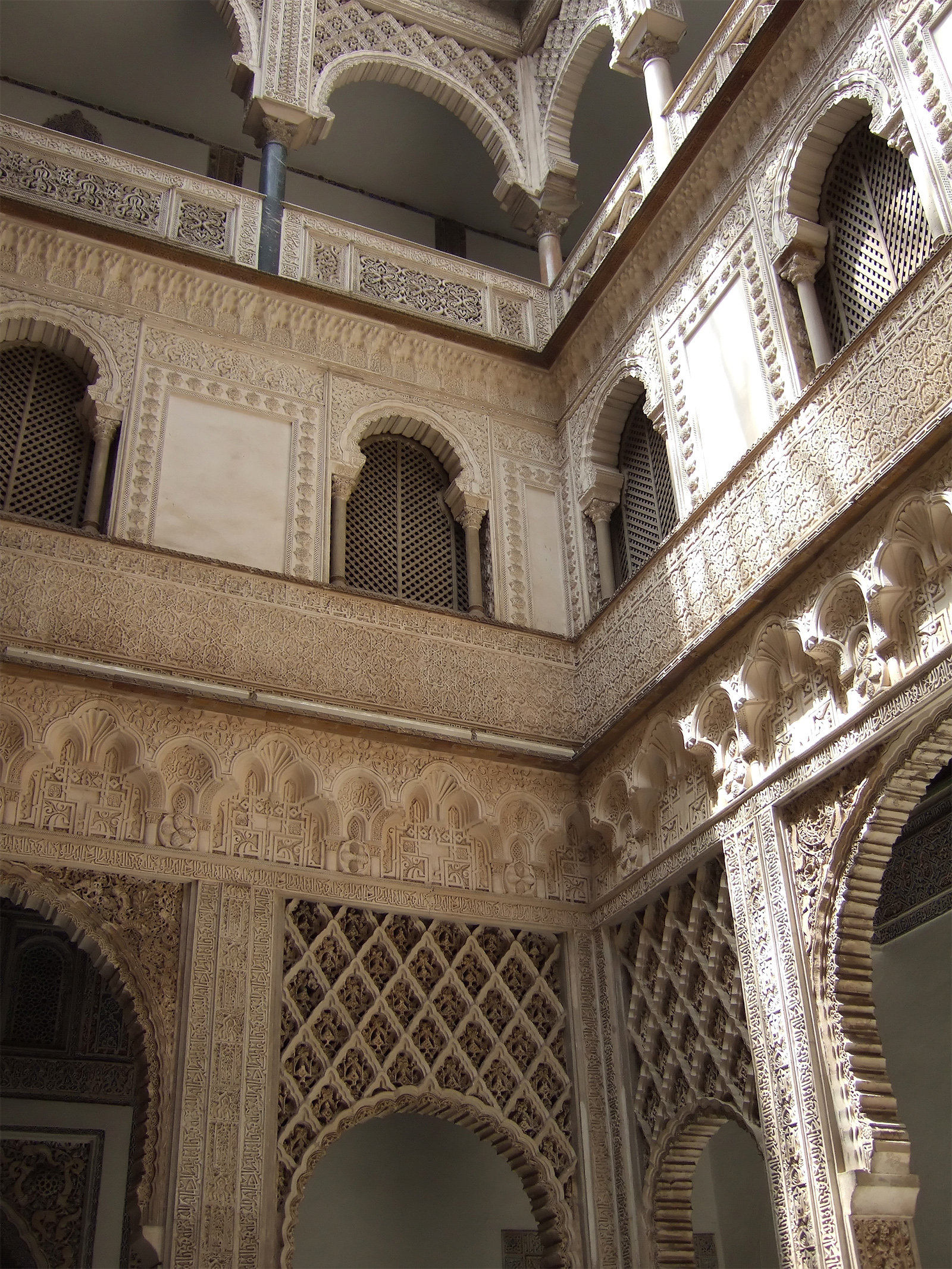 Room Detail from the Royal Alcazars in Seville, Spain. Fuji F11 Camera at ISO 200.